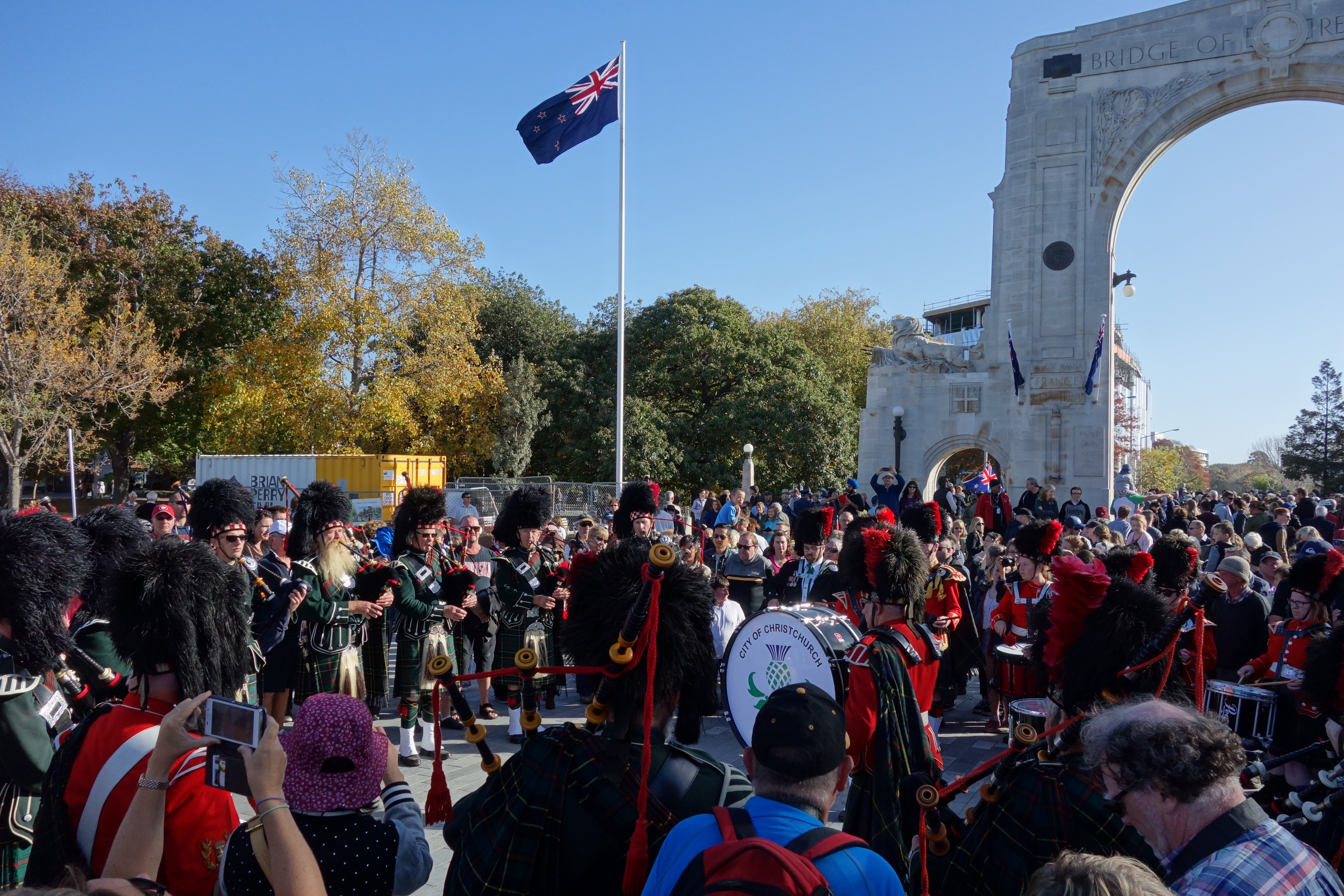 Bridge of Remembrance rededication ceremony